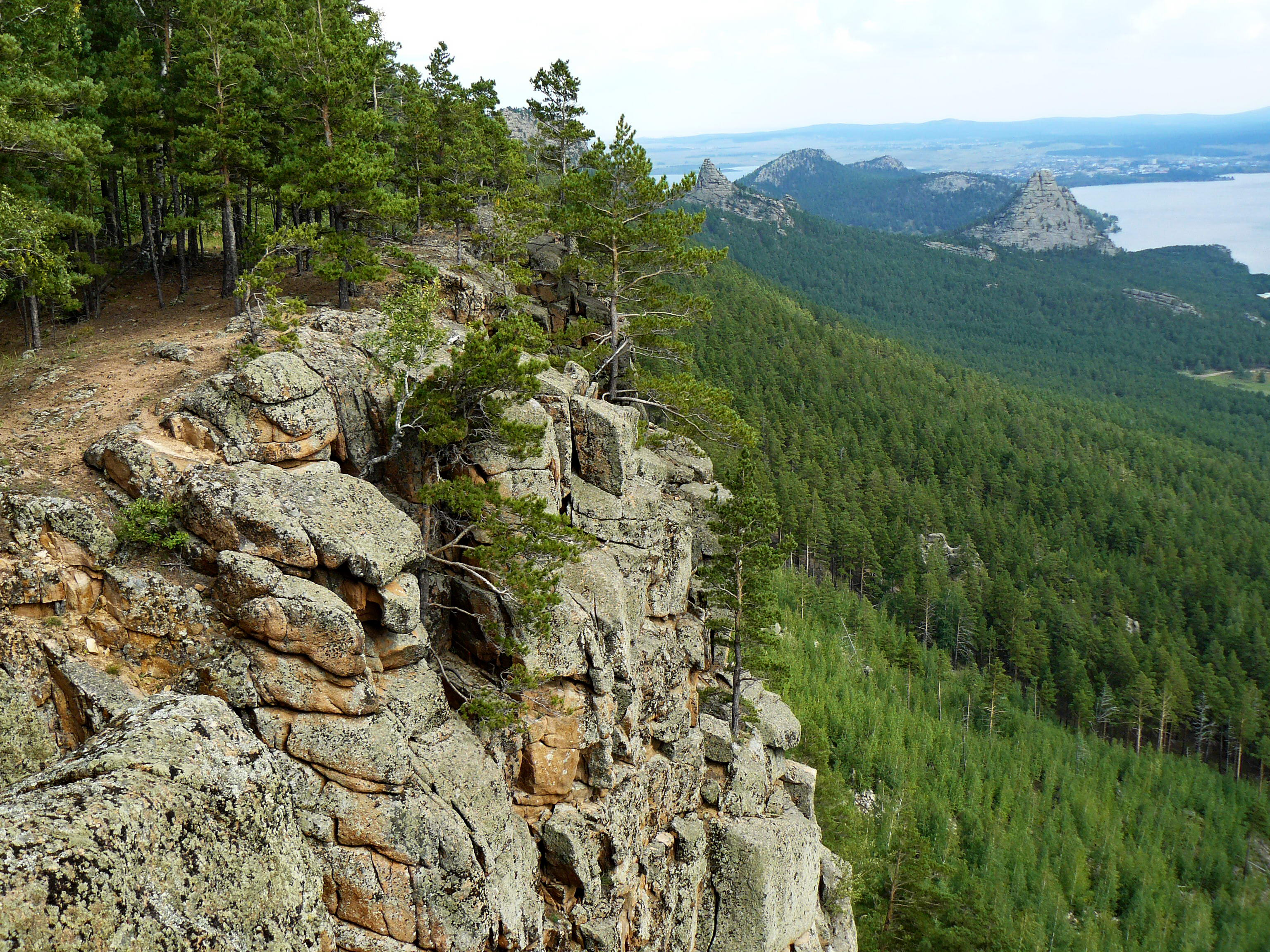 The middle part of Sinyuhi (Kokshetau). Mountains and rocks.